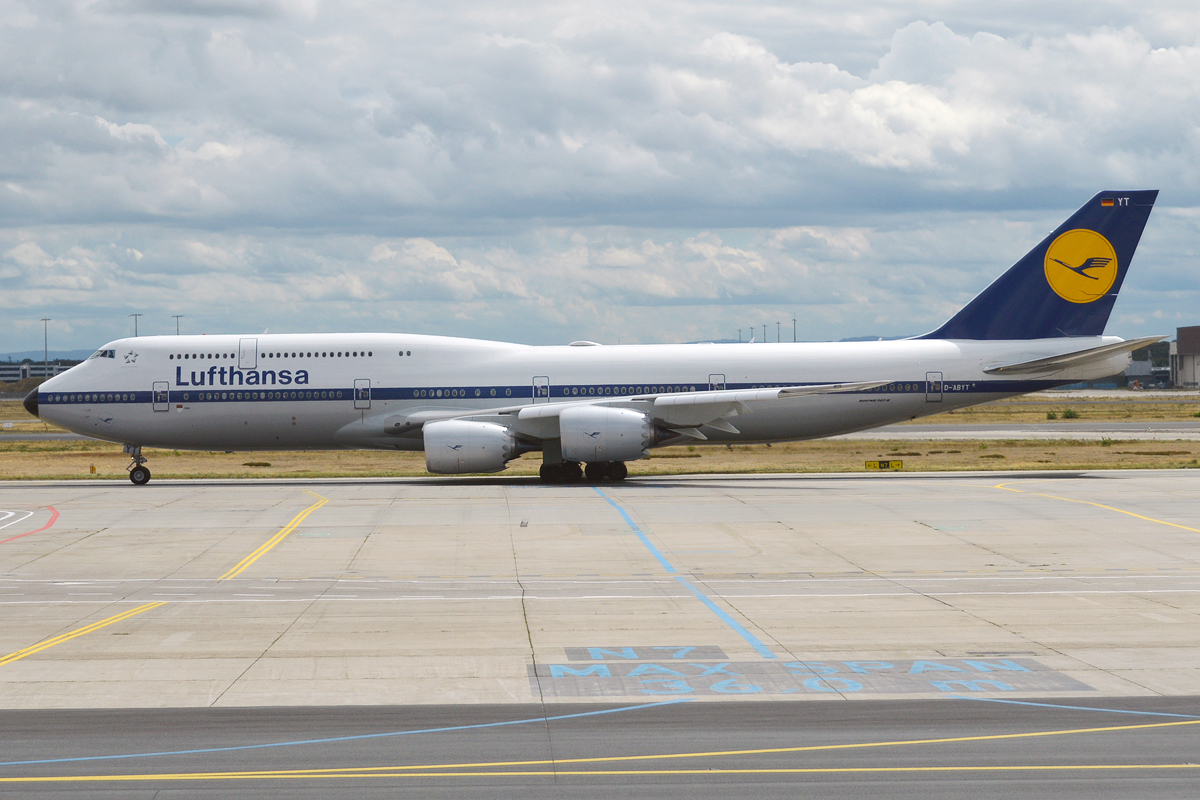 Lufthansa (Retro Livery), D-ABYT, Boeing 747-830